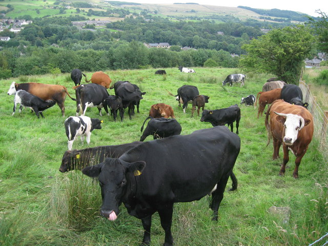 Cows and Calves. This herd of cows and calves pass the time of day away in a field next to the footpath just below 498747 Rossendale valley can be seen in background.